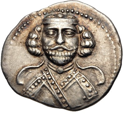 Drachm of Phraates III, Ecbatana mint.